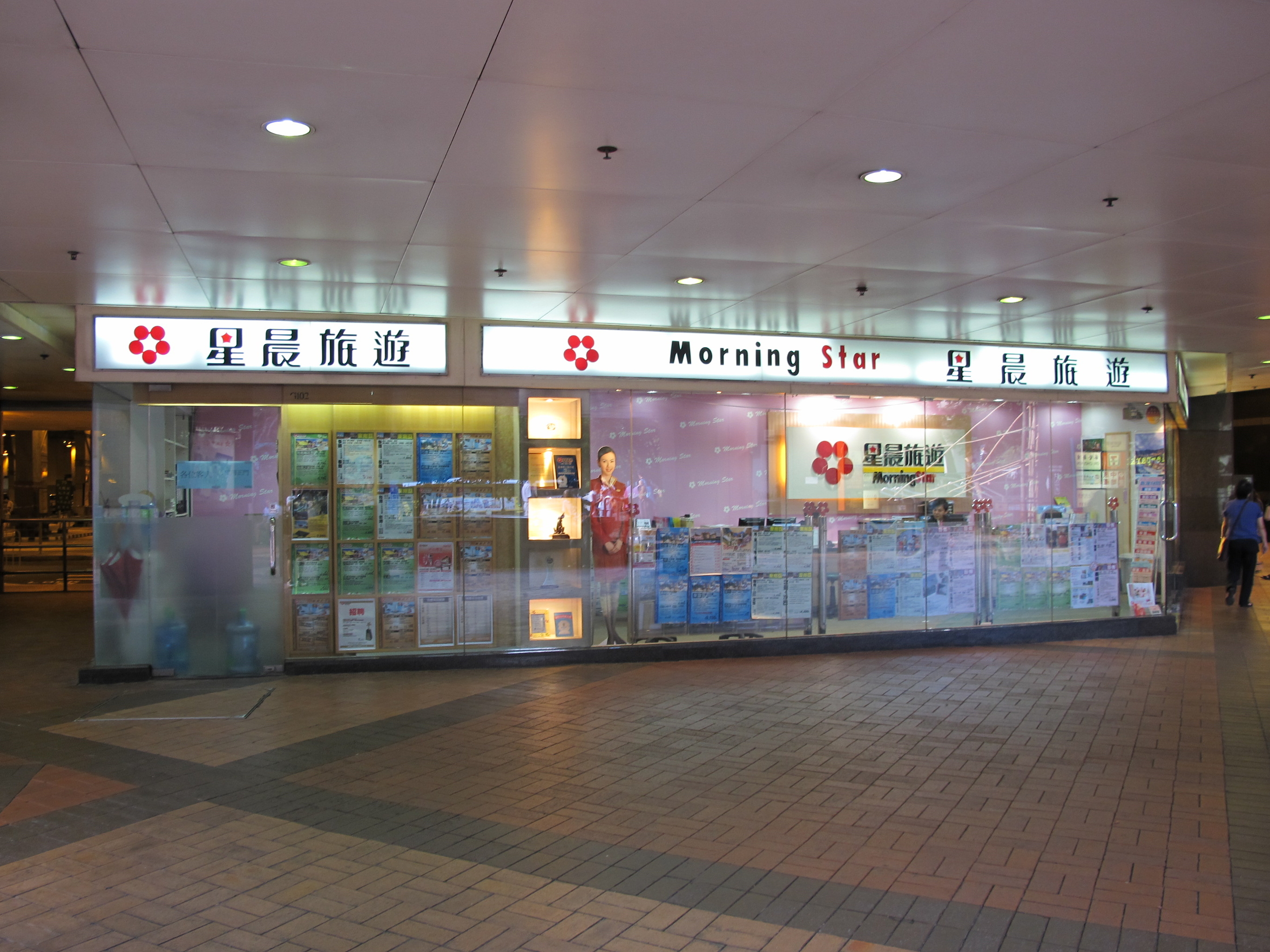 Morning Star in Plaza Hollywood 星晨旅遊於荷里活廣場分行